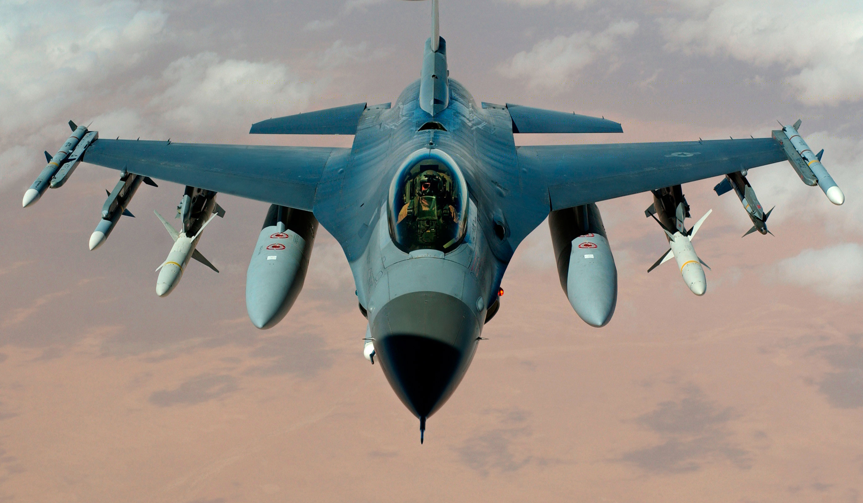 A U.S. Air Force F-16 Fighting Falcon flies a mission in the skies near Iraq on March 22, 2003 during Operation Iraqi freedom.